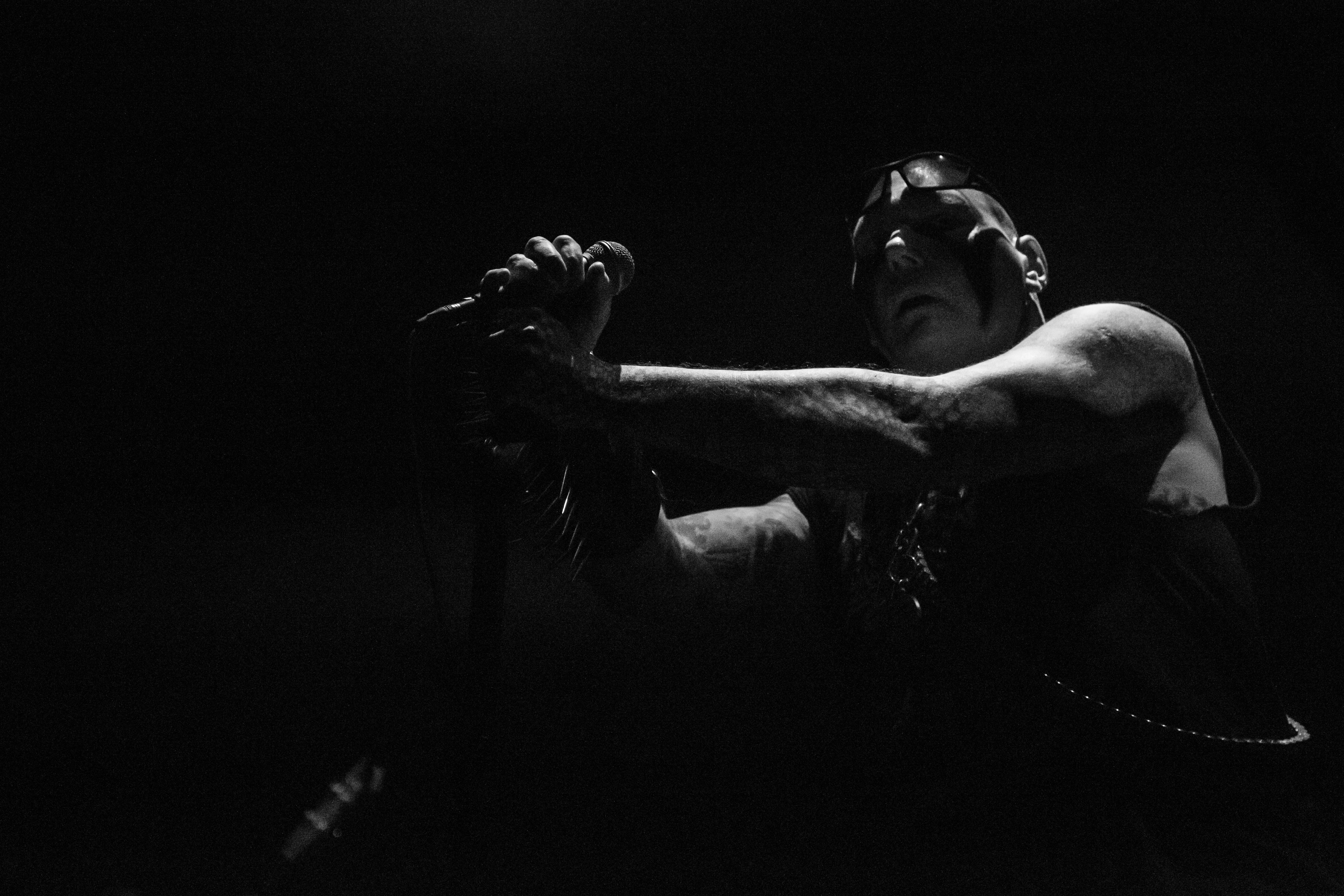 Blasphemy perfoming live at Eindhoven Metal Meeting, 2017